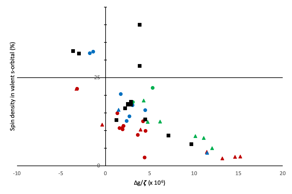 A plot of the correlation between the spin density in the valent s-orbital (as measured from the isotropic hyperfine coupling) against the g-shift (normalized by the spin-orbit coupling constant) for trivalent tetrel radicals.